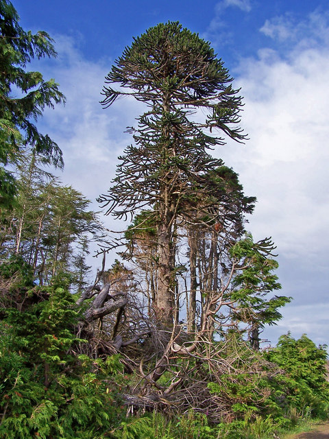 Monkey Puzzle tree. The pine forest here has been cleared, and many of the trees that were left have been blown down in storms. This fine Monkey Puzzle tree (Araucaria araucana) still stands, while at least two other similar trees nearby are now sadly horizontal. (see 873243).